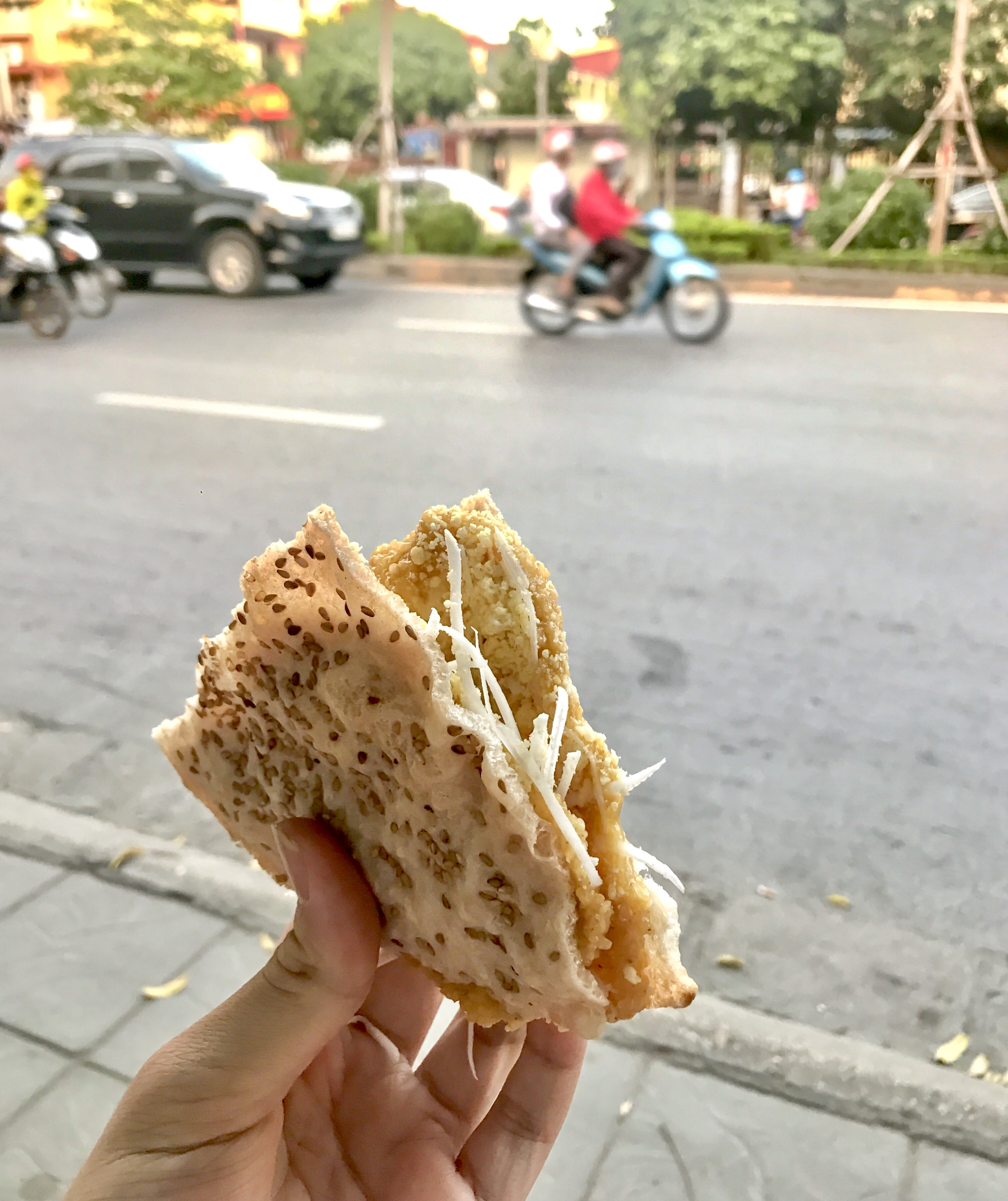 Bánh đa kê trên vỉa hè Hà Nội